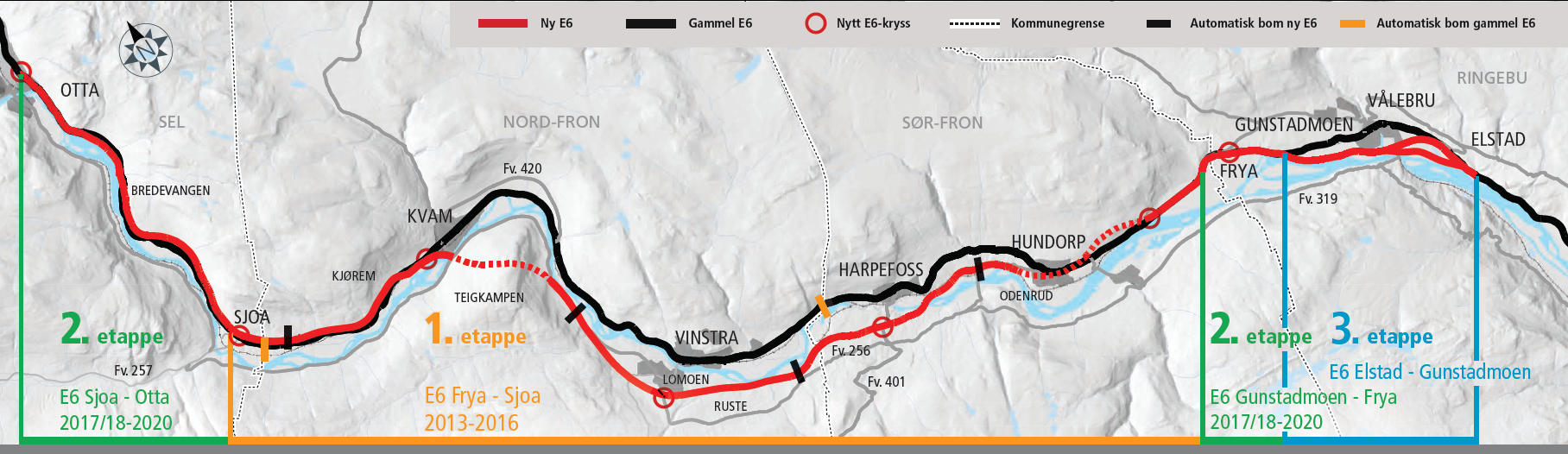 E6 construction plan, Ringebu-Otta stretch